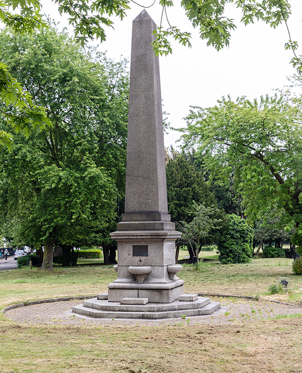 The "monument' in the image is a memorial drinking fountain. Erected in 1879, it originally stood in the middle of the road a little further to the south at the junction with Park Avenue. It was moved in 1904 to accommodate new tram routes. The main inscription on east face reads 'Erected in affectionate remembrance of Mrs Catherine Smithies of Earlham Grove, Wood Green, Founder of the Band of Mercy Movement, and presented by her family and friends for the use of the public'. The stone forming the obelisk is twenty-one feet in length. In 1879 it was the longest single cut stone in London, with the exception Cleopatra's Needle on the Thames Embankment. Made of polished granite, it was quarried from the Penryn quarries of Freeman and Sons, in Cornwall.